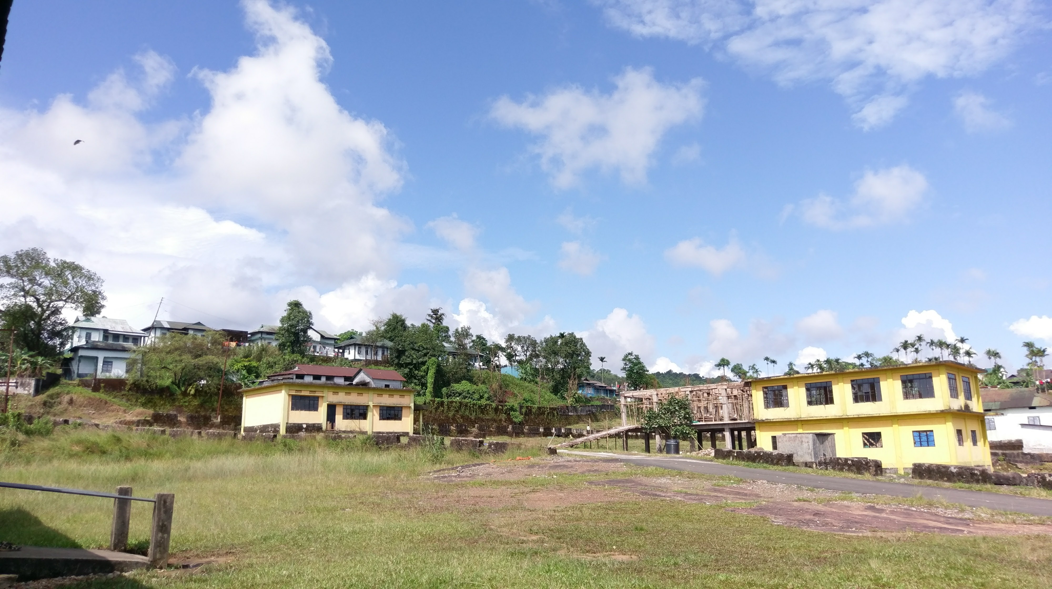 Nongtalang Town